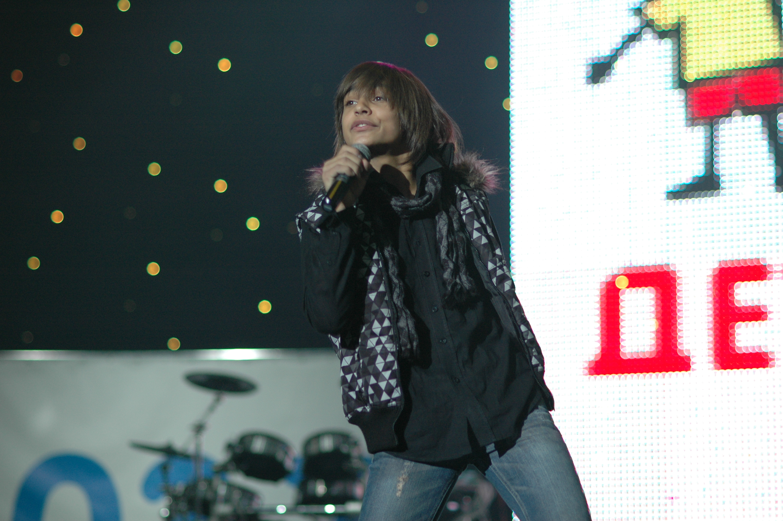 Mikhail Puntov at Detskoe Radio Disco (St-Petersburg, Russia)